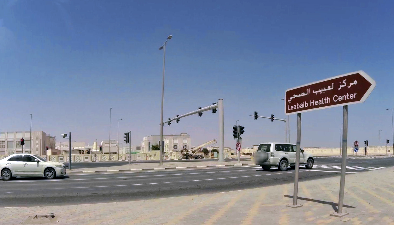 Sign for Leabaib Health Center - Al Daayen Municipality, Qatar.